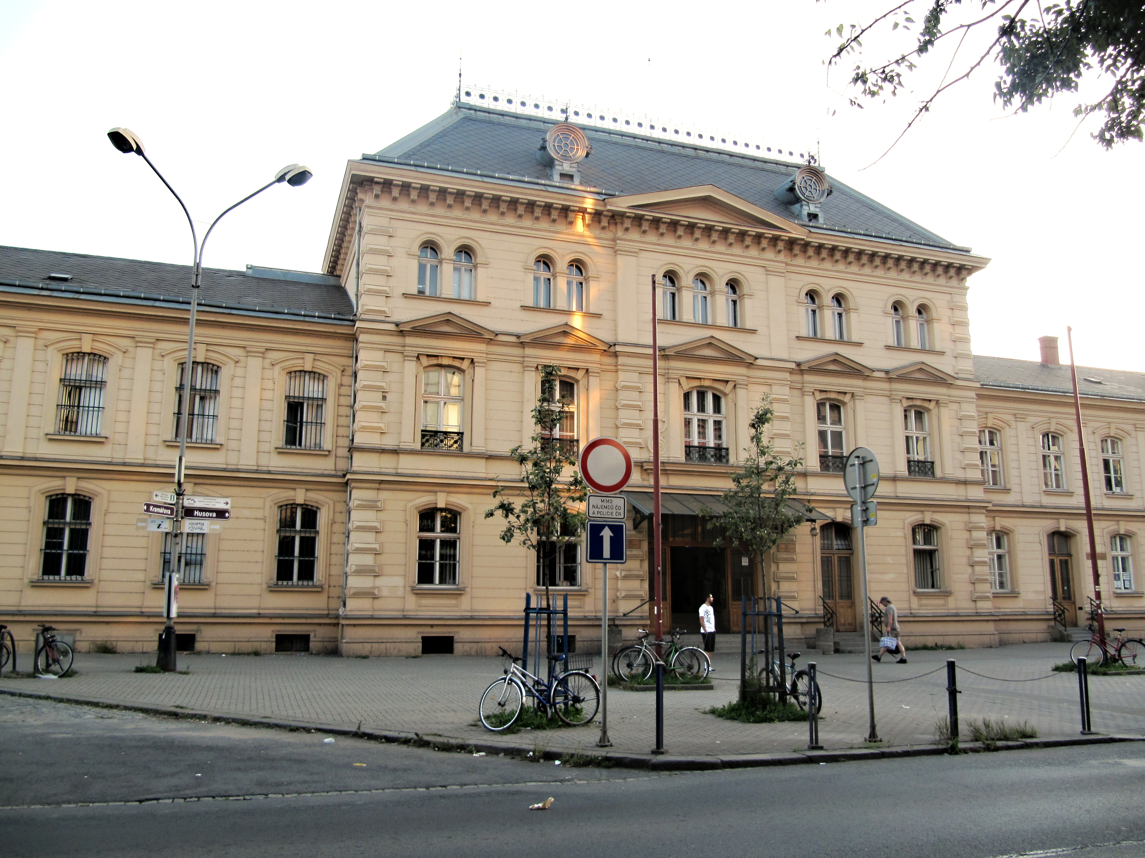 Přerov, Czech Republic. Train station. This photograph was taken within the scope of the third year of the 'Czech Municipalities Photographs' grant.